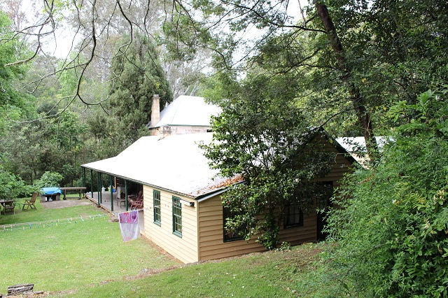 Goldfinders Inn: View of the cottage